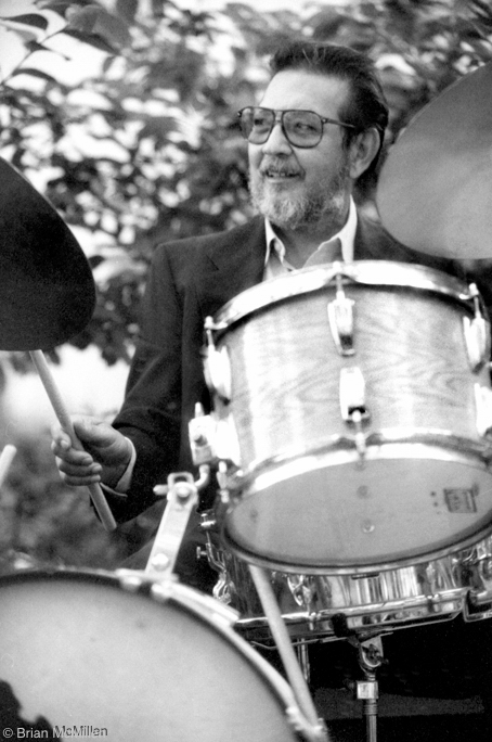 Vernell Fournier in New York NY playing with Tommy Flanagan and George Mraz. July 7, 1983. Photo by Brian McMillen /